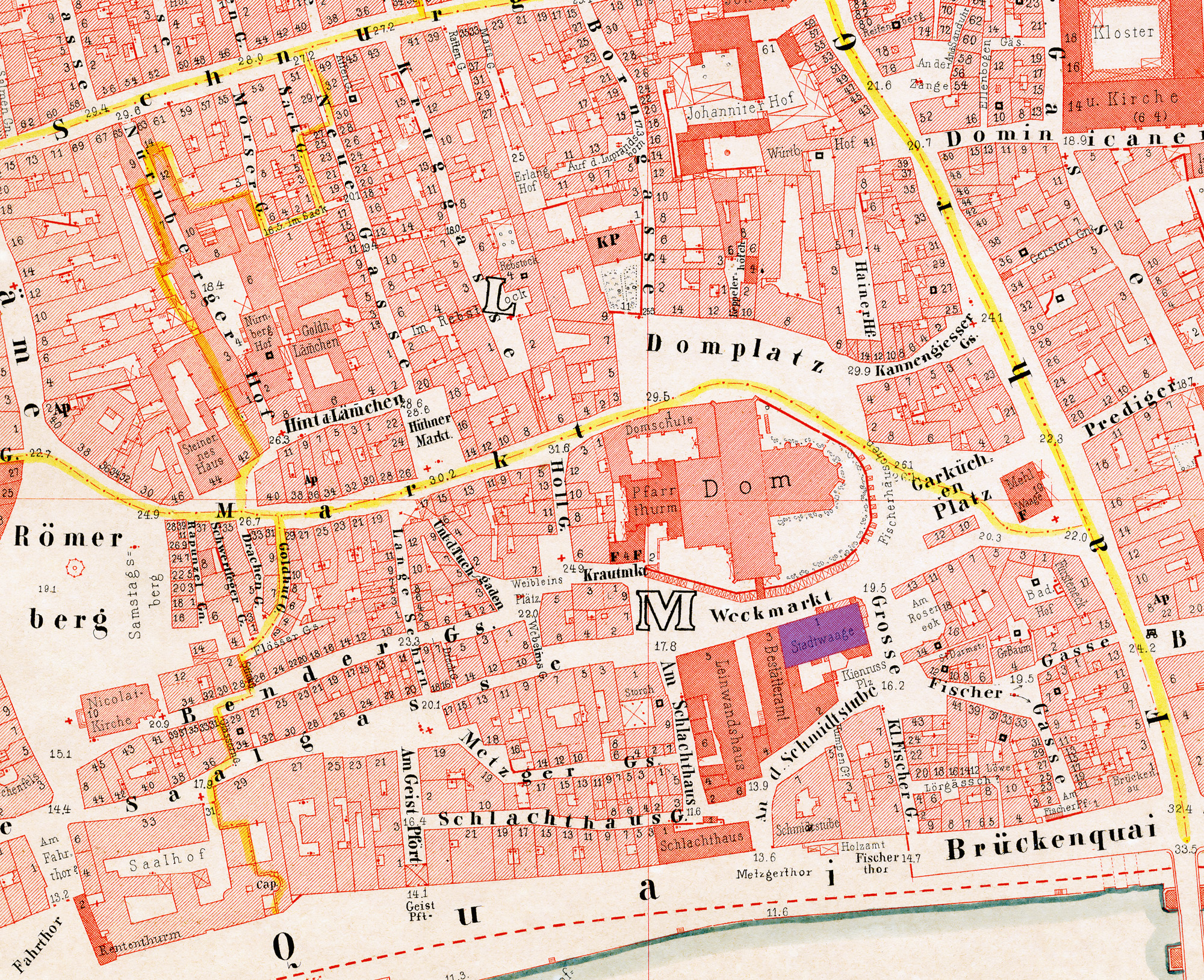 Frankfurt on the Main: Crop of map sheet 5 of Ravenstein's plan with the surroundings of the Stadtwaage (City Scales) highlighted in blue